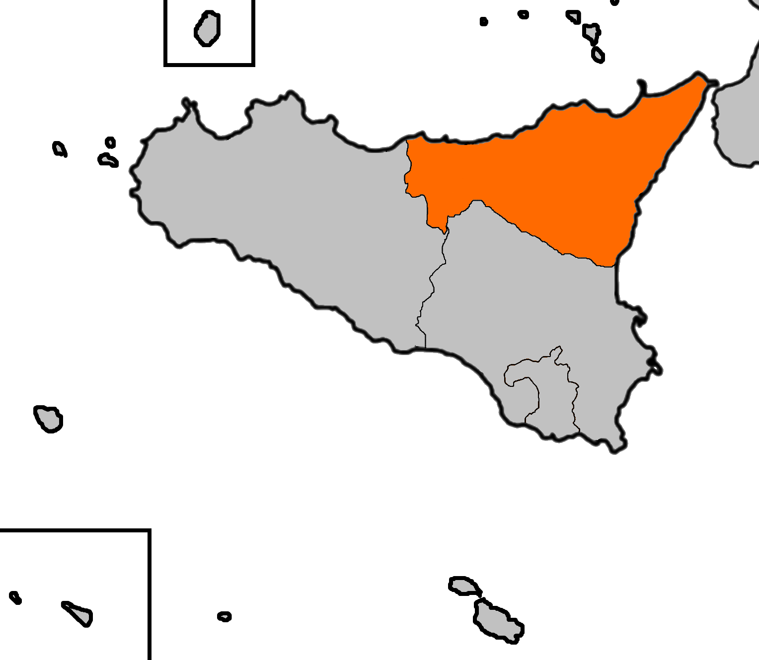 Map of Kingdom of Sicily in 1720. Source= Johann Wolfang Wieland, Isle et Royaume de Sicile, 1720.